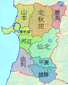 Subdivision of Akita dialect of Japanese